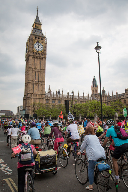 Participants in the Space for Cycling (on Twitter, "#space4cycling") campaign's Big Ride demonstration cycling towards the Palace of Westminster in London. The campaign calls for safer road conditions in Britain for cyclists.